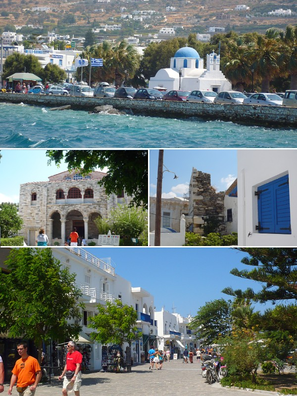 Paros collage